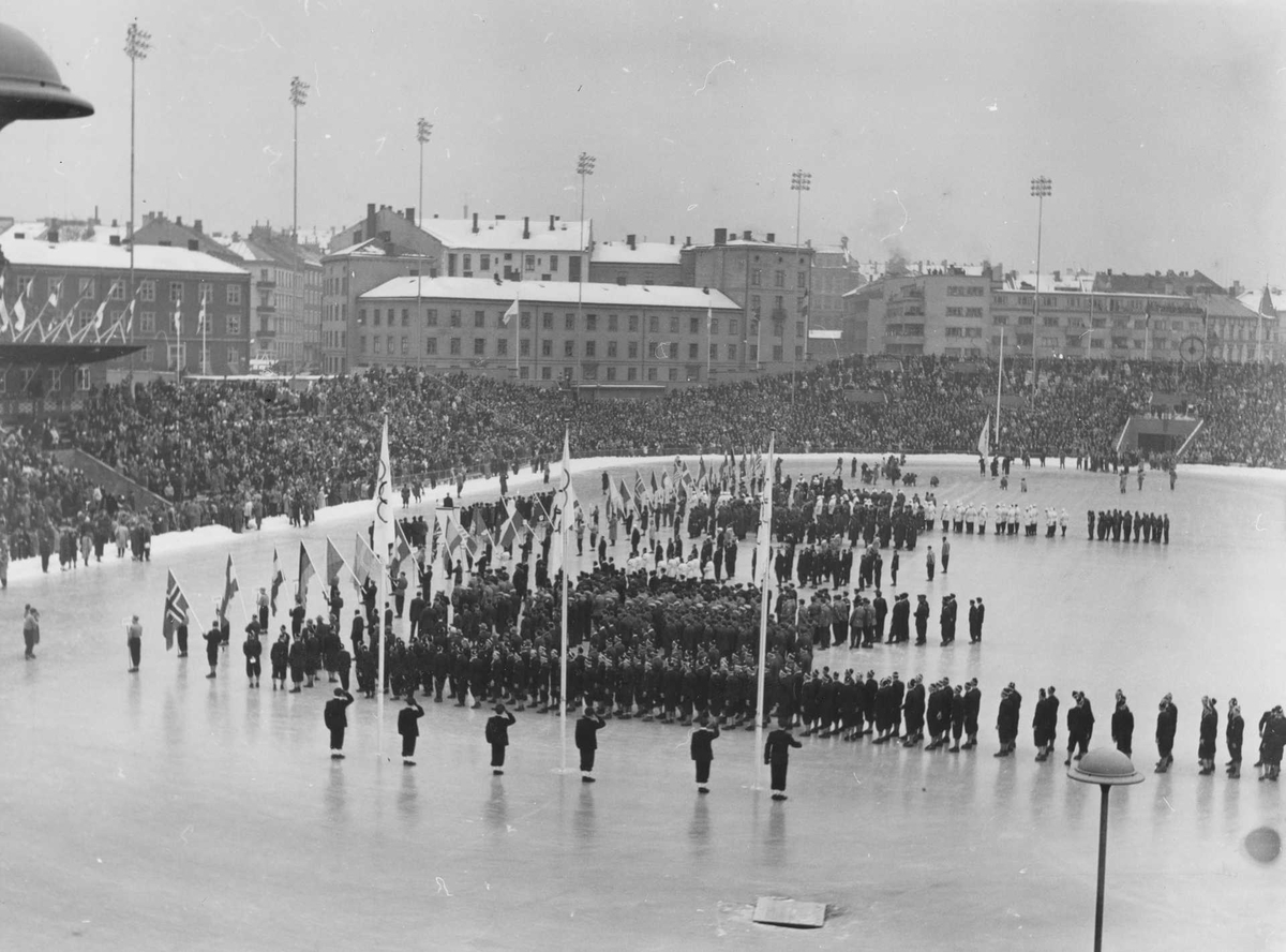 The opening ceremony of the 1952 Winter Olympics in Oslo